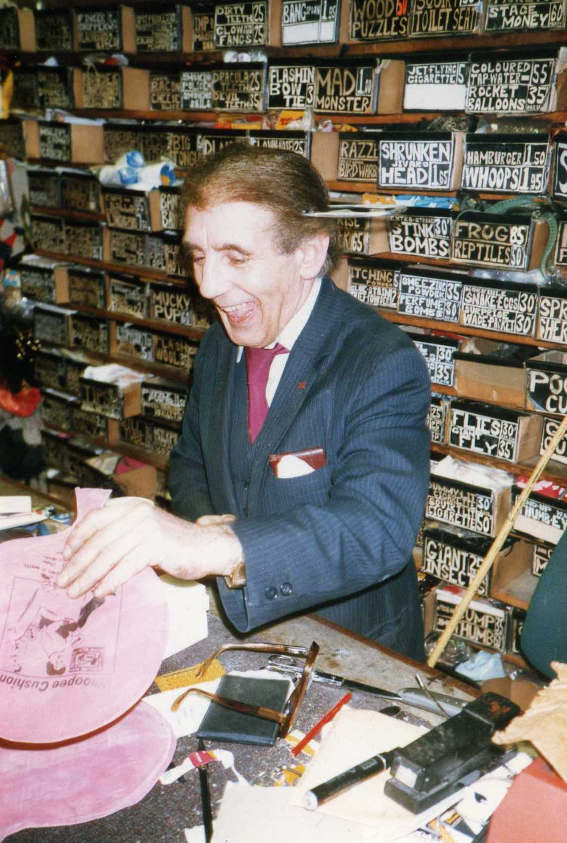 A photo of British magician Alan Alan at The Magic Spot in London.